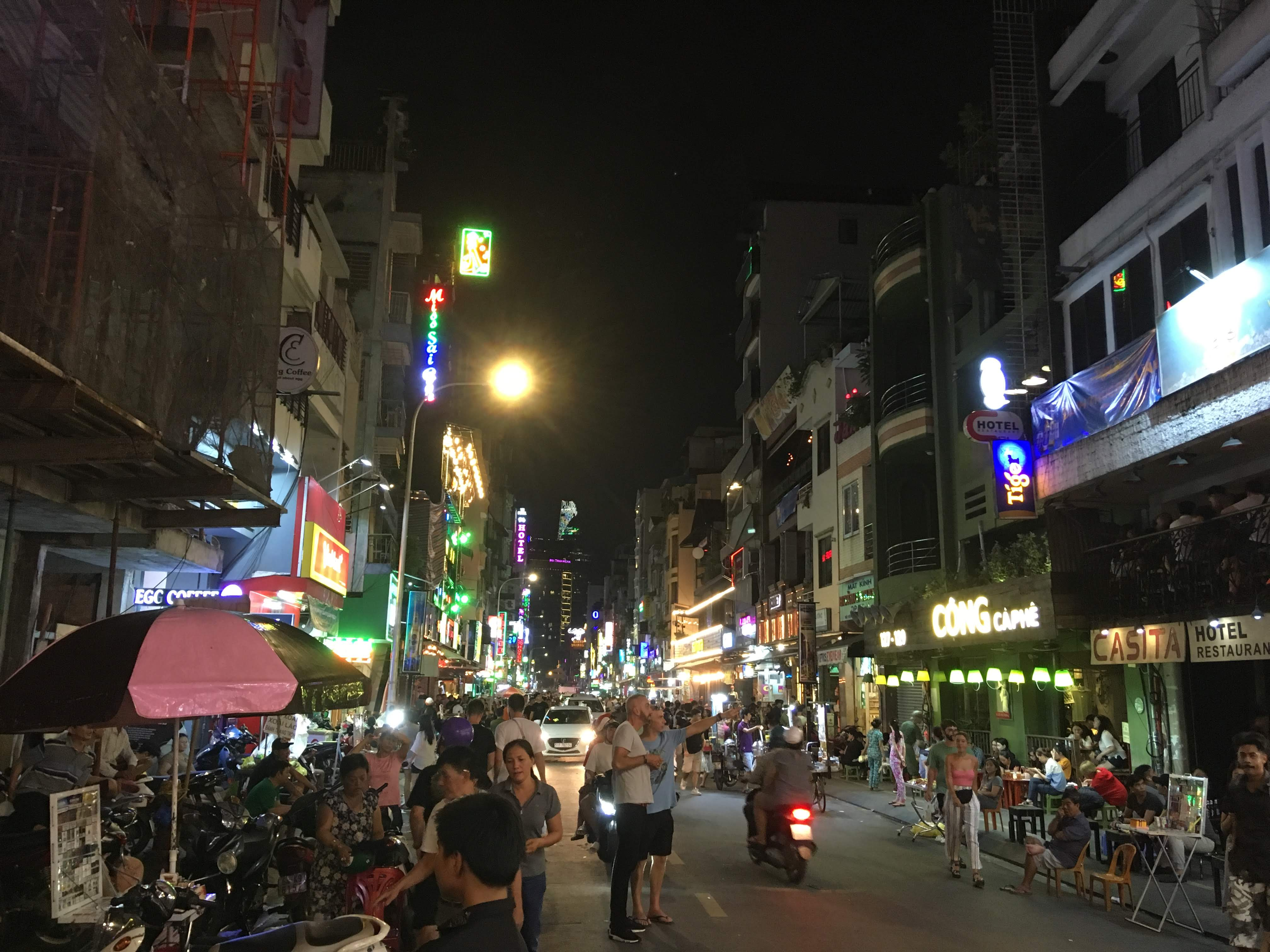 Bui Vien Street in Ho Chi Minh City.